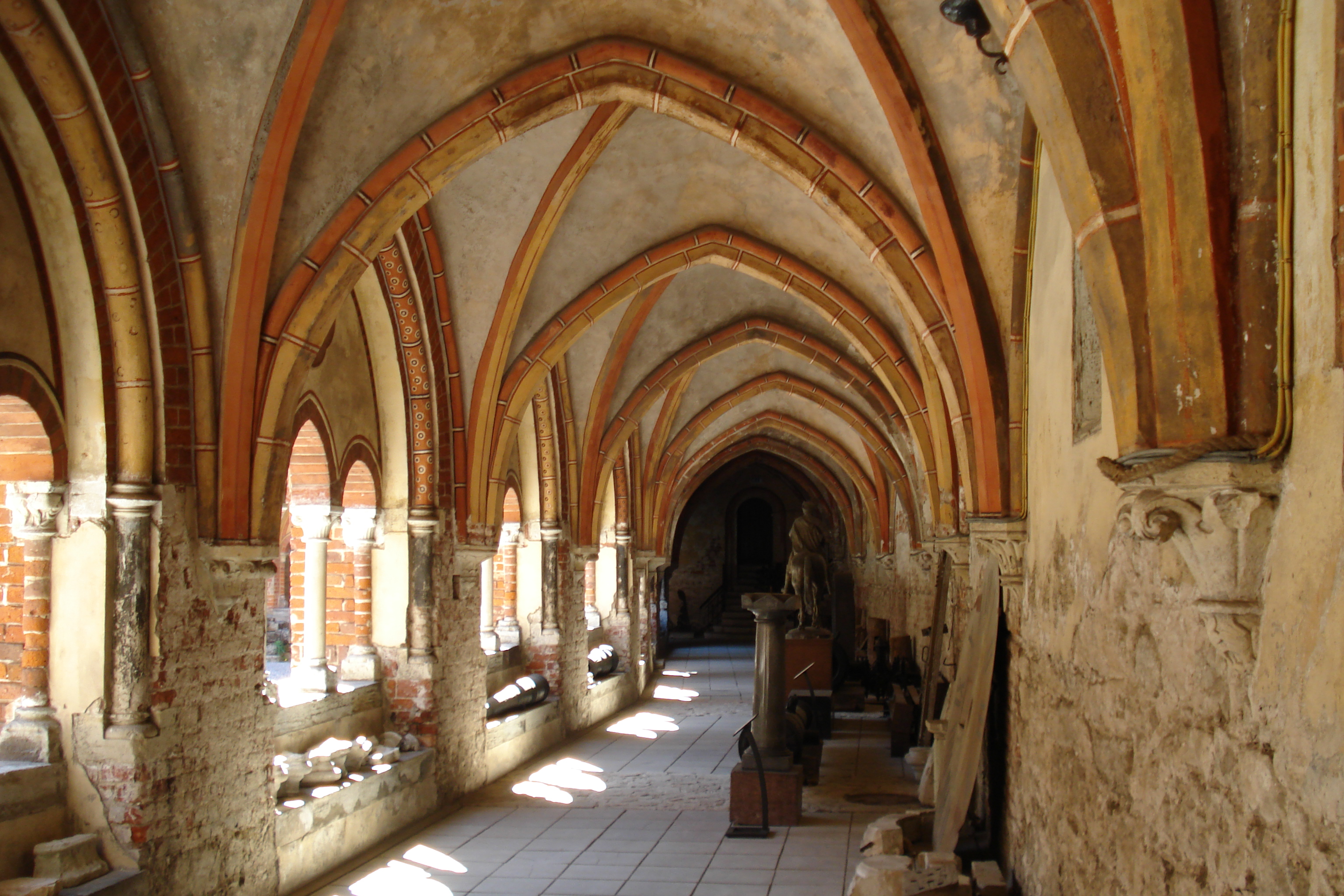 The arcade in the courtyard of the Riga Dome Cathedral